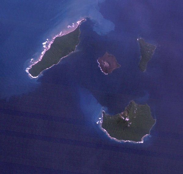 NASA Earth Observatory Landsat picture of Krakatau island area 18 May 1992